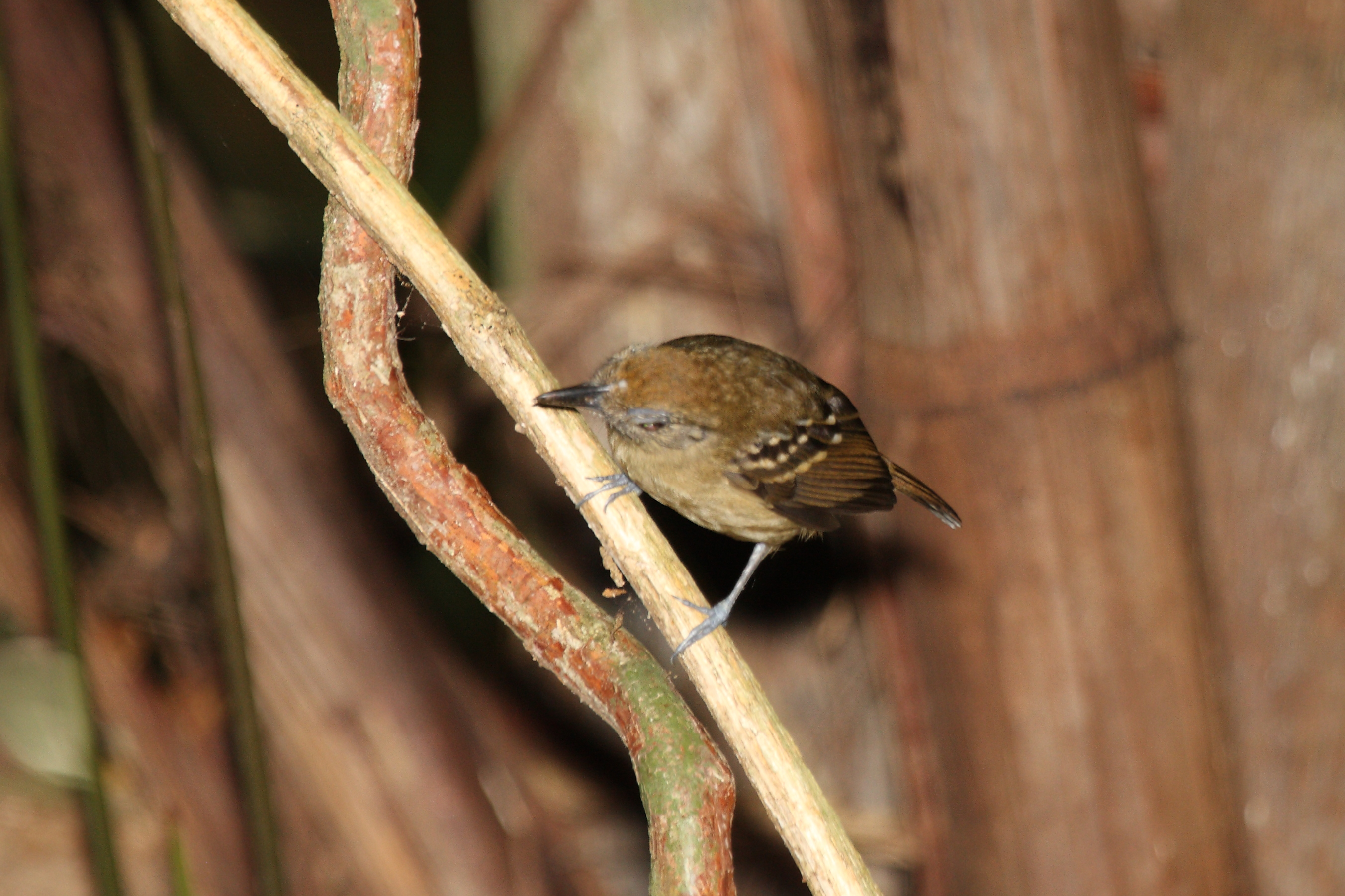 Female. Photographed at Semaphore HIll, Canopy Tower, Panama.